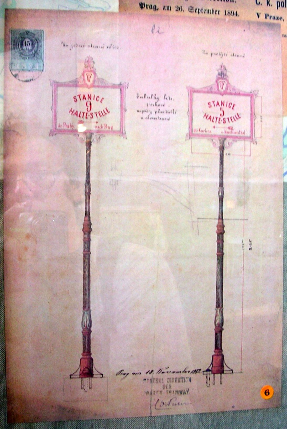 Střešovice, Prague, the Czech Republic. A stop sign of horse-drawn Prager Tramway.